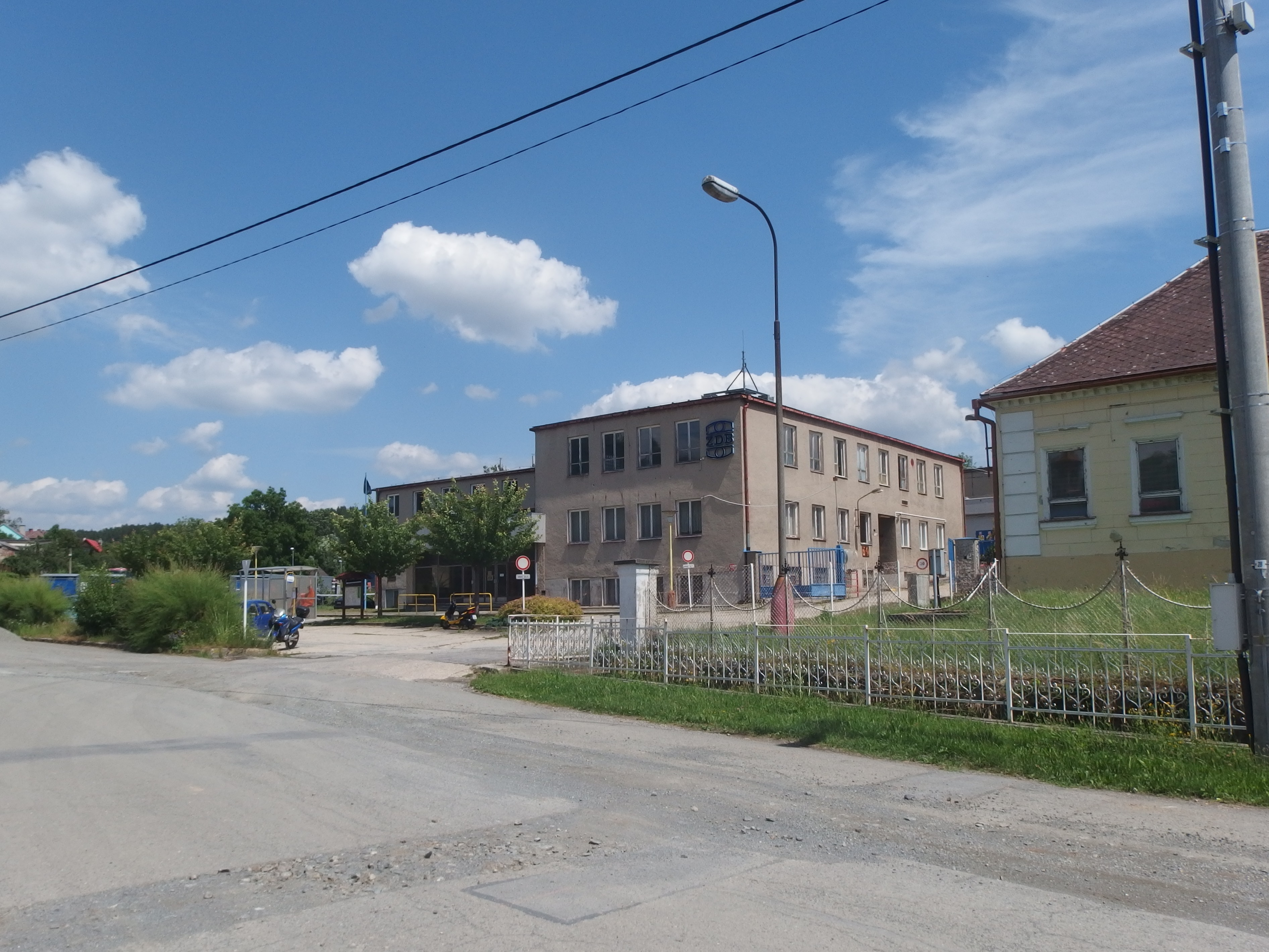 Kamenná, Šumperk District, Czechia.